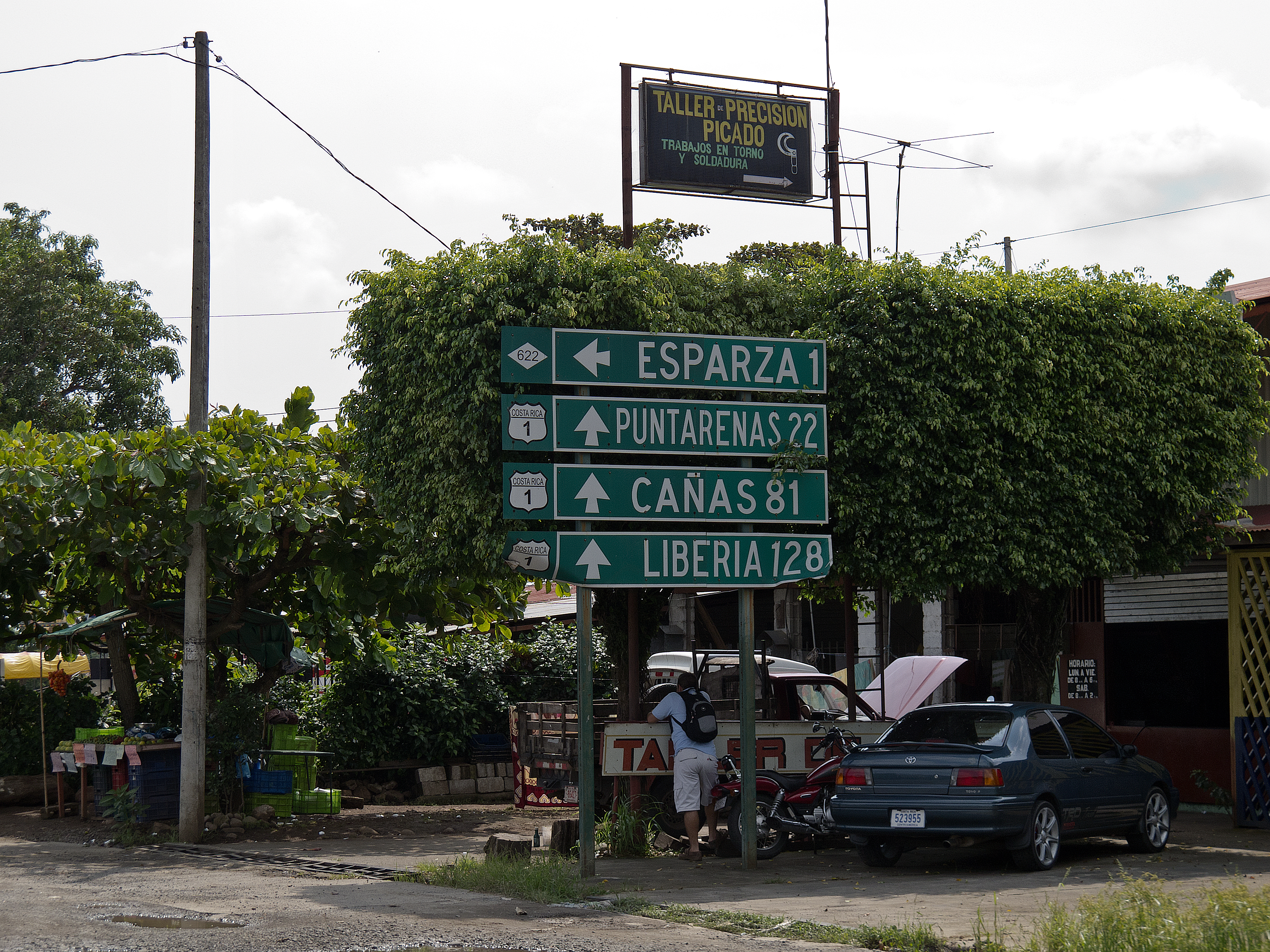 Signs at the entrance of Esparza, Costa Rica, along the Panamerican Highway.